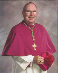 A picture of Bishop McFadden. Bishop Mcfadden was ordained on May 16, 1981, and was consecrated as Bishop on July 28, 2004